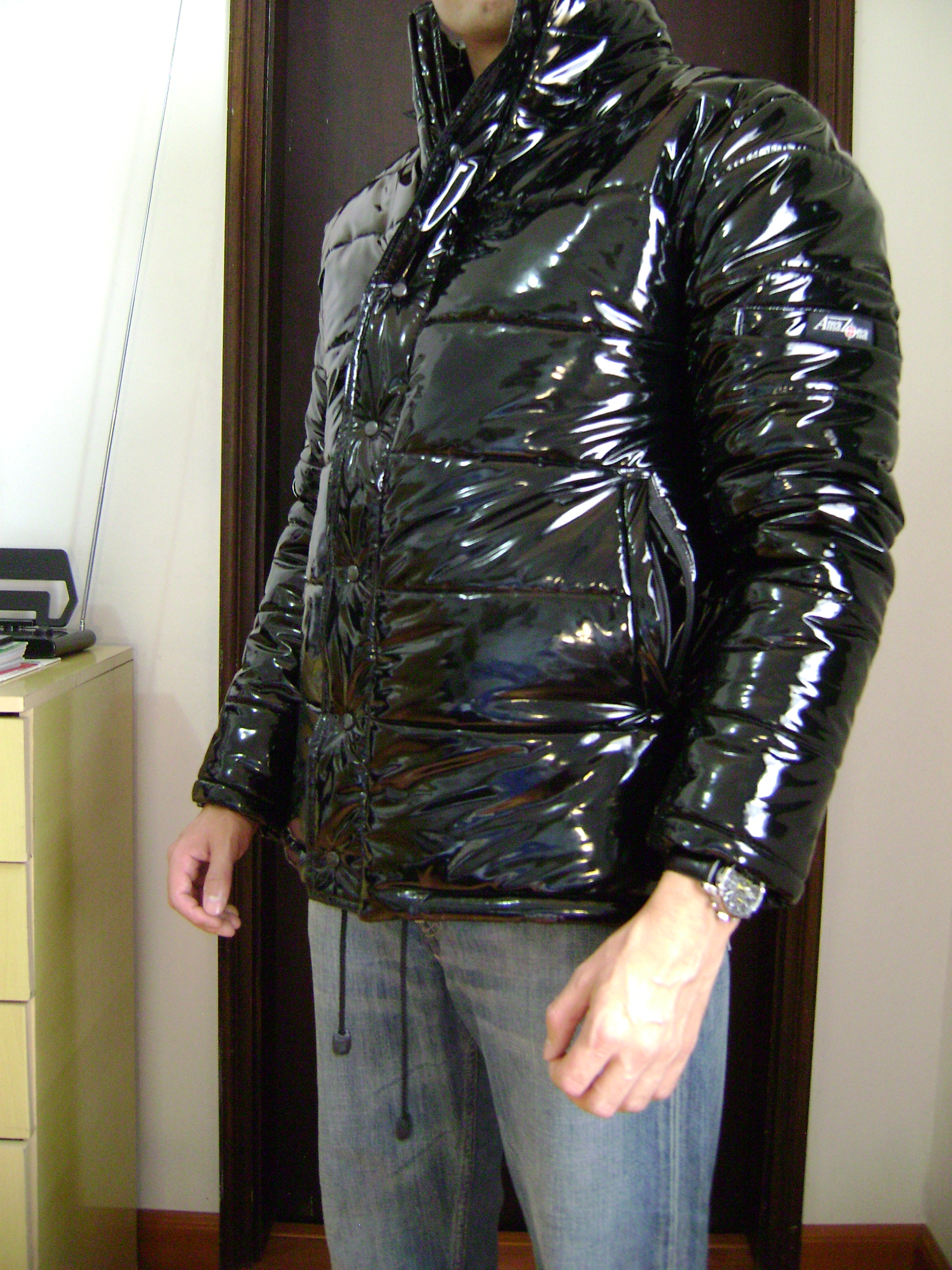 PVC jacket